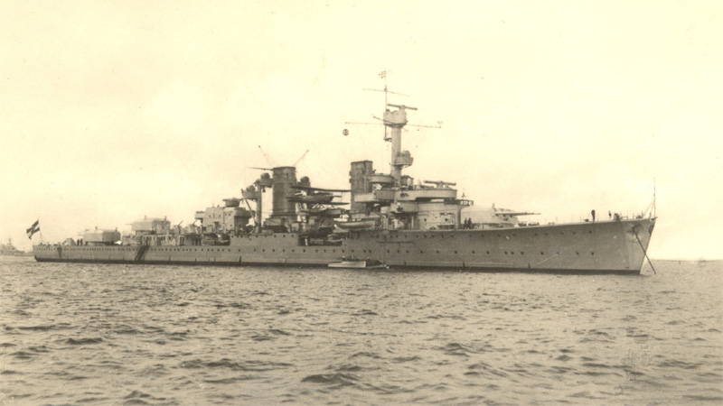 picture of the german WW2 cruiser "Königsberg"